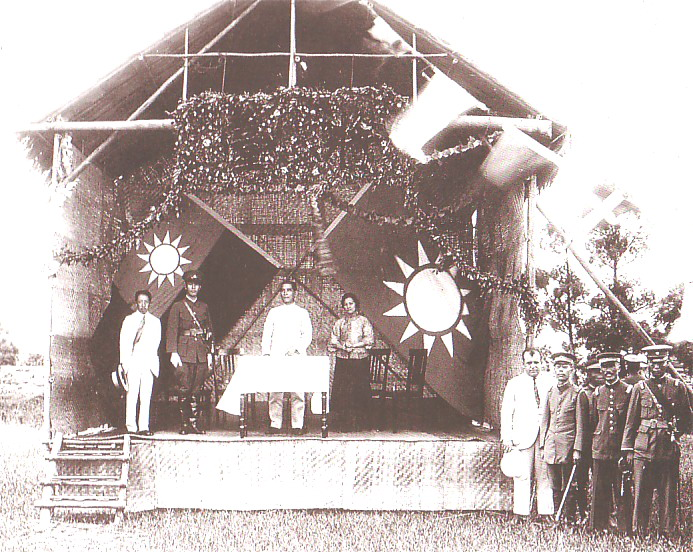 孙中山在黄埔军校开学典礼演讲（在场的还有宋庆龄、蒋介石、廖仲恺）Sun Yat-sen [middle behind the table] and Chiang Kai-shek [on stage in uniform] at the founding of the Whampoa Military Academy in 1924.